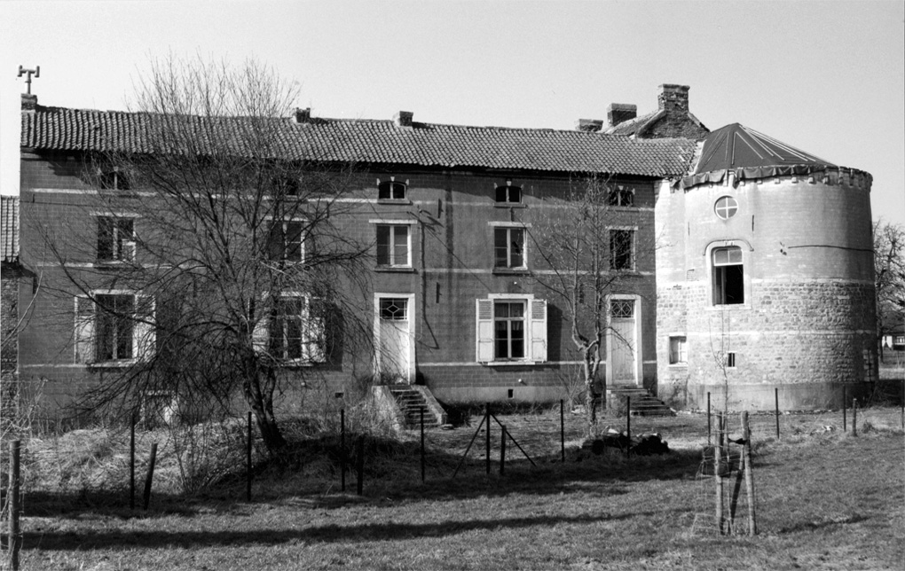 Building in Orsmaal-Gussenhoven (Belgium)